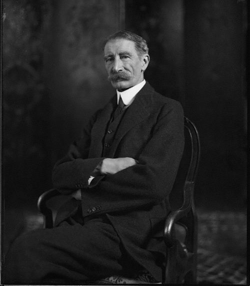 by Bassano, 12 x 10 inch glass plate negative, 20 April 1923